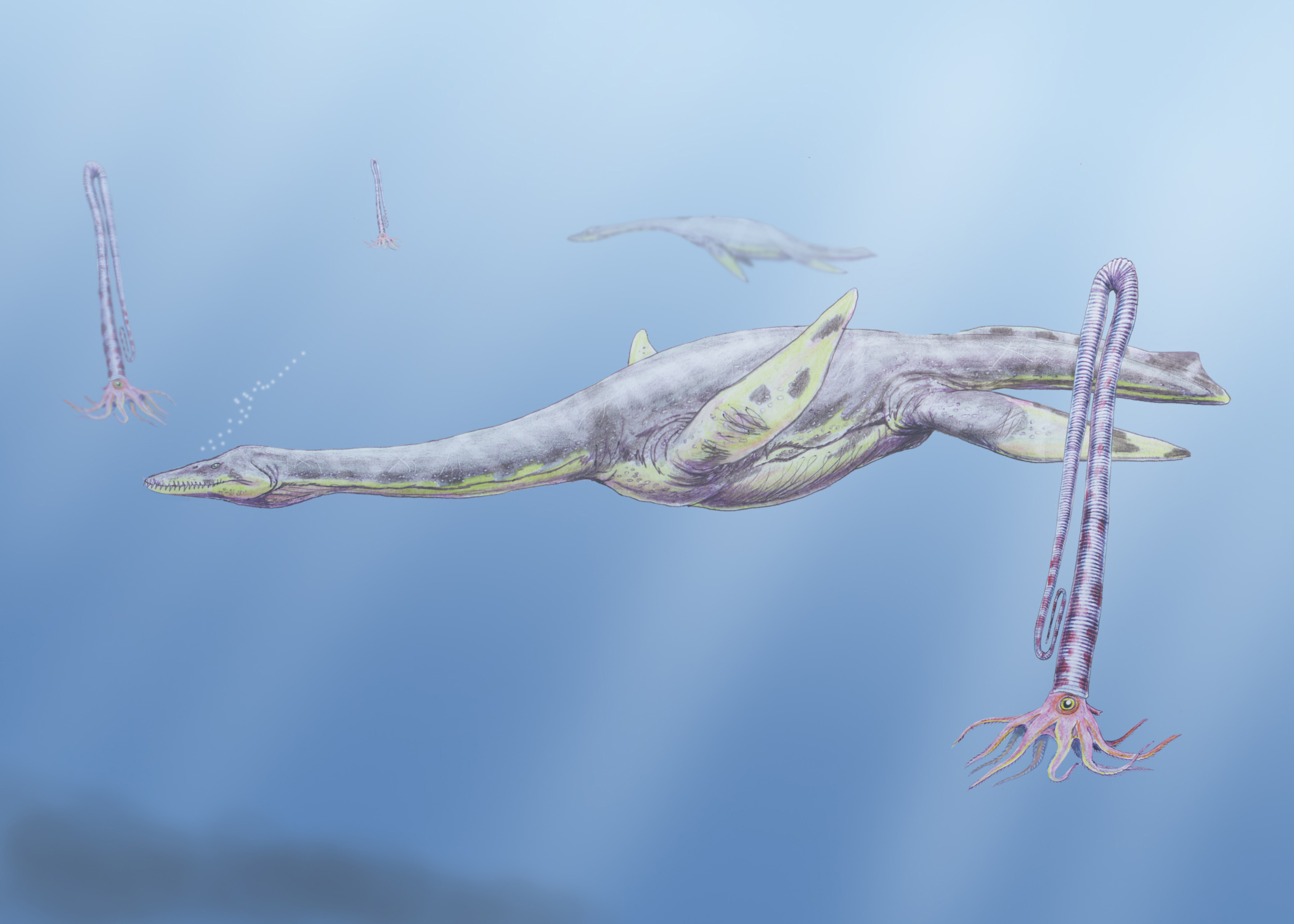 Aristonectes parvidens (with Diplomoceras ammonites)